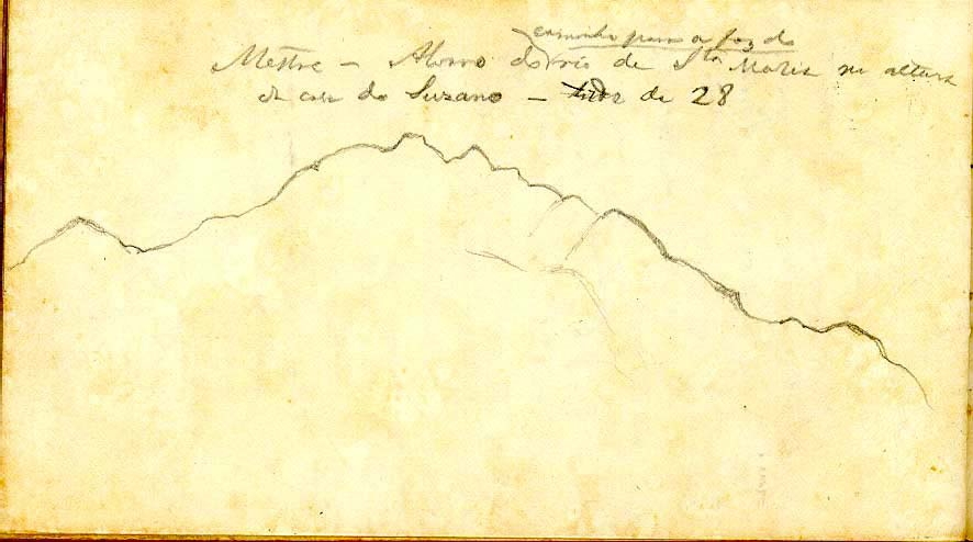 Monte Mestre Álvaro drawn by Emperor Pedro II of Brazil. Writen above: "Mestre Álvaro from the way to Santa Maria river about house of Susano - afternoon of 28th."